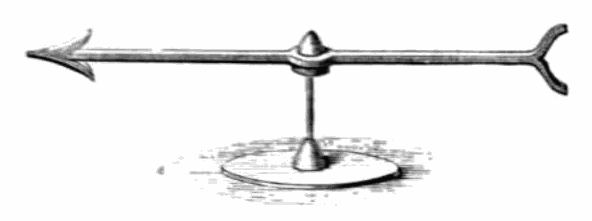 Drawing of the 'versorium', the first electrical measuring instrument, a crude electroscope invented in 1600 by British scientist William Gilbert. It was a simple pivoted metal needle, like a compass but unmagnetized. The needle would be attracted to charged bodies.